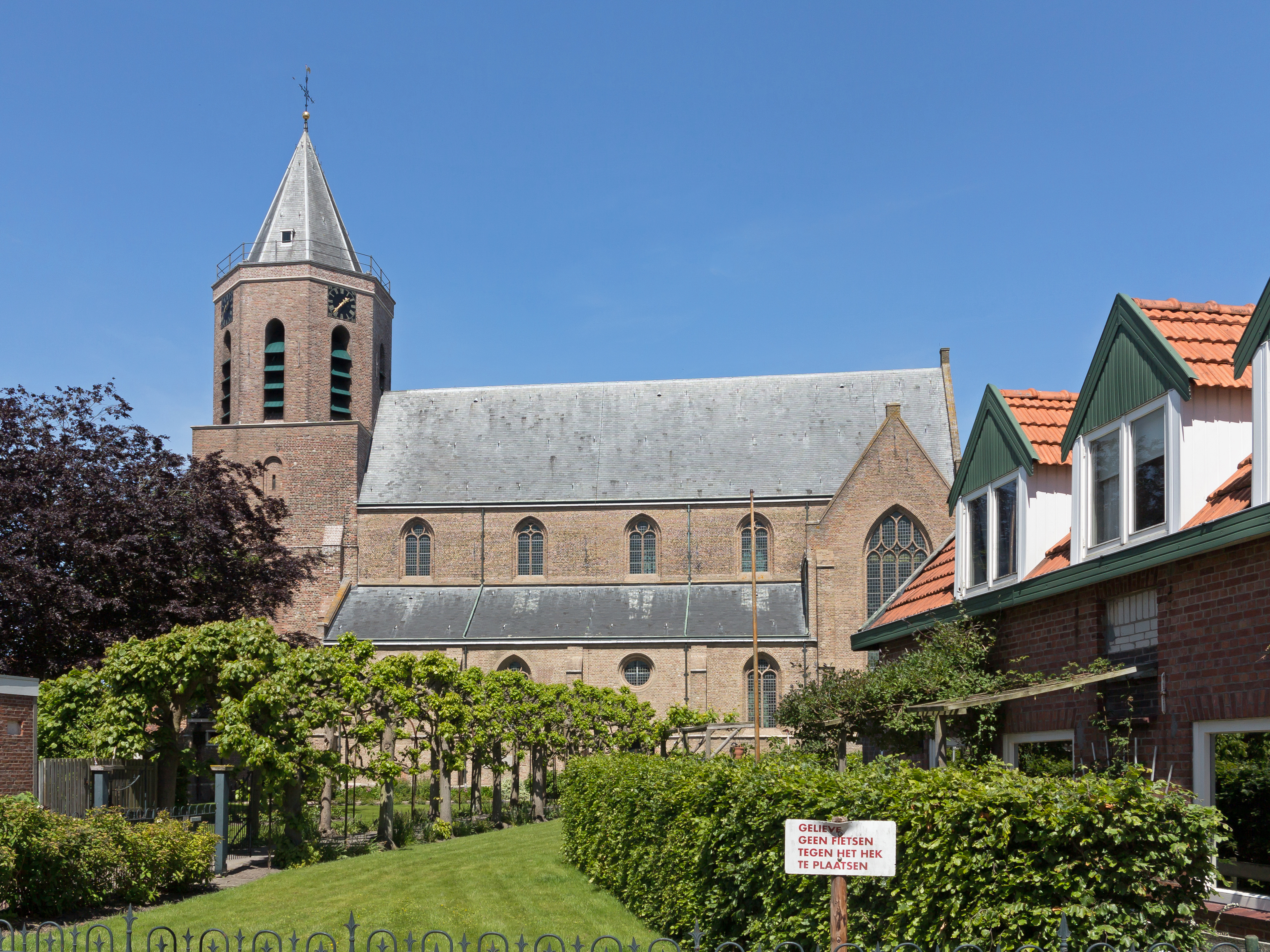 Poortvliet, church: de Sint Pancratiuskerk